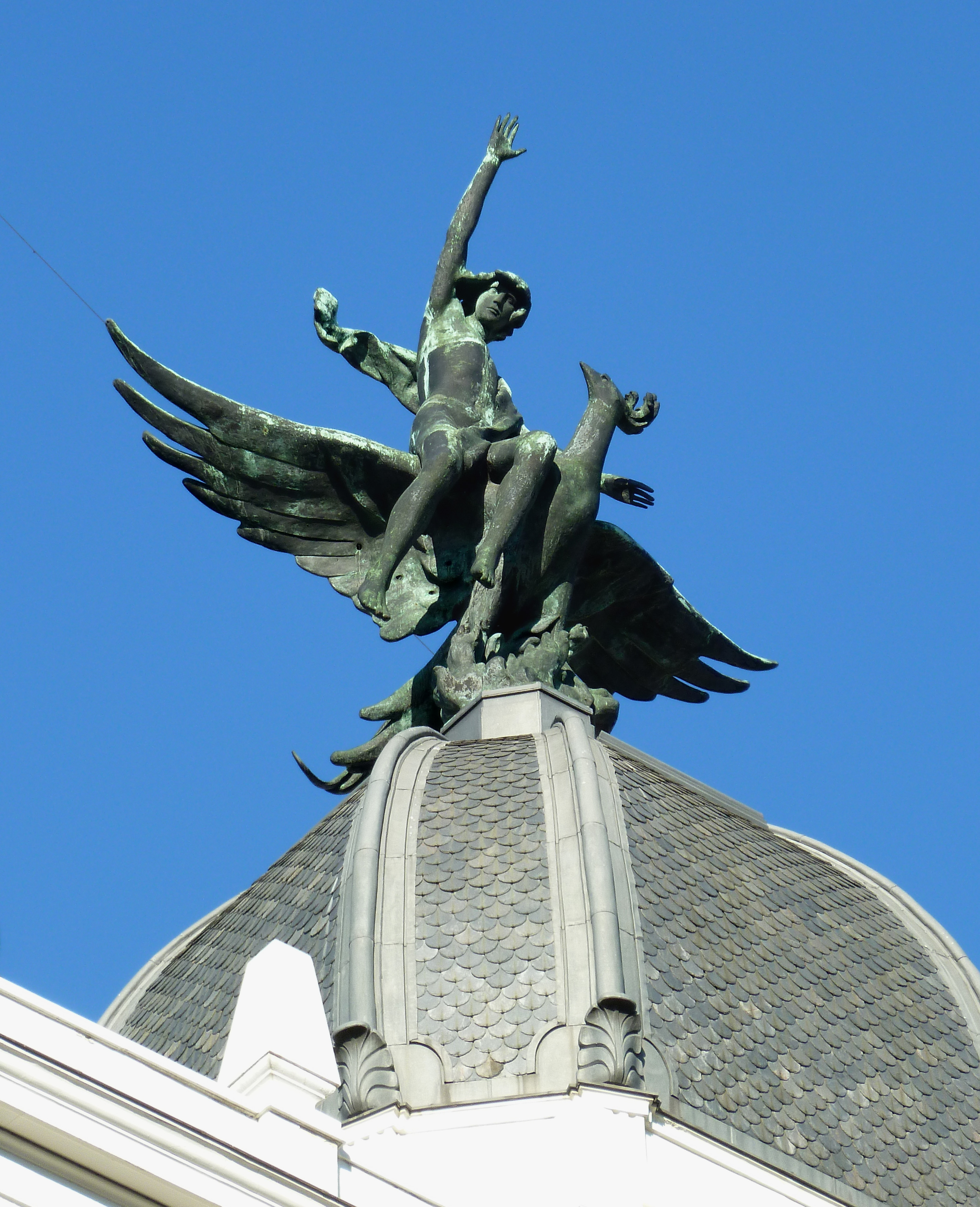 Top of Madrid-Paris Building, at 32 Gran Vía (avenue) in Madrid (Spain).